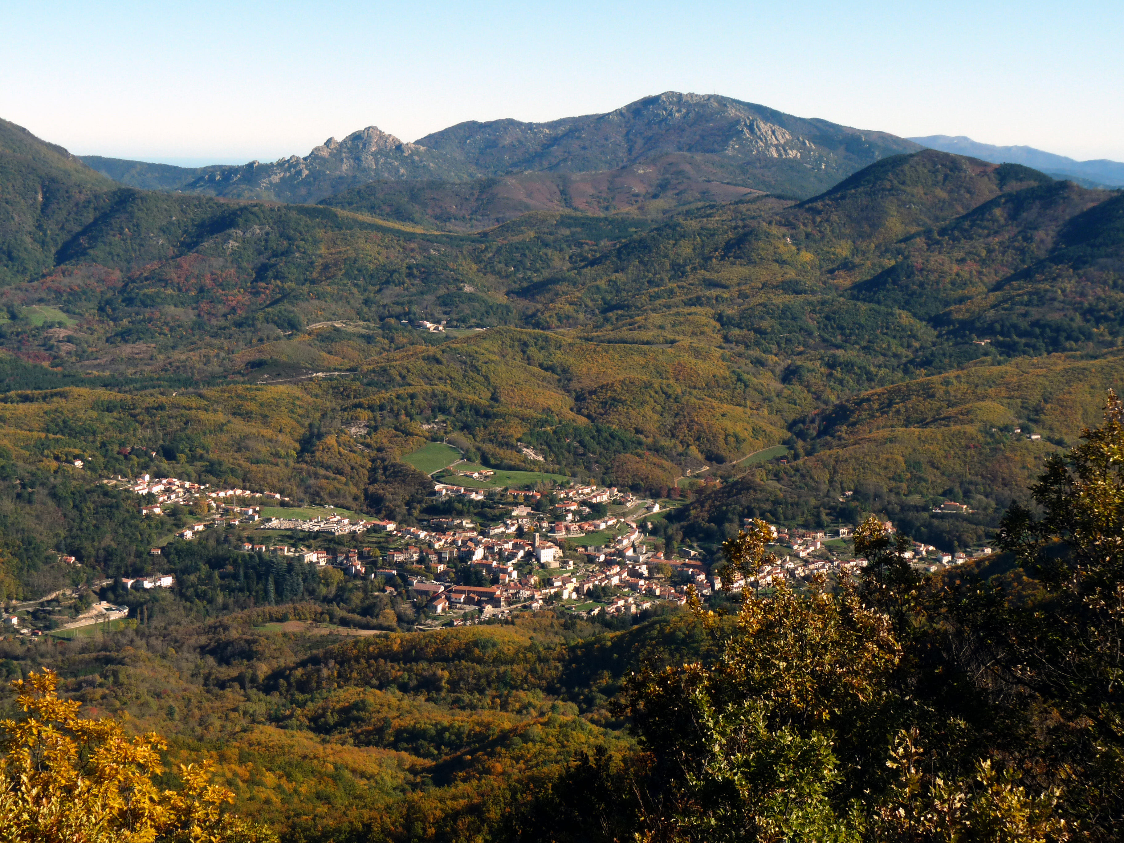 Village of Saint-Laurent de Cerdans viewed from Roc Cogull (Roussillon, France)